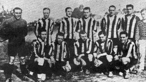 Peñarol team that won the Uruguayan Primera División.